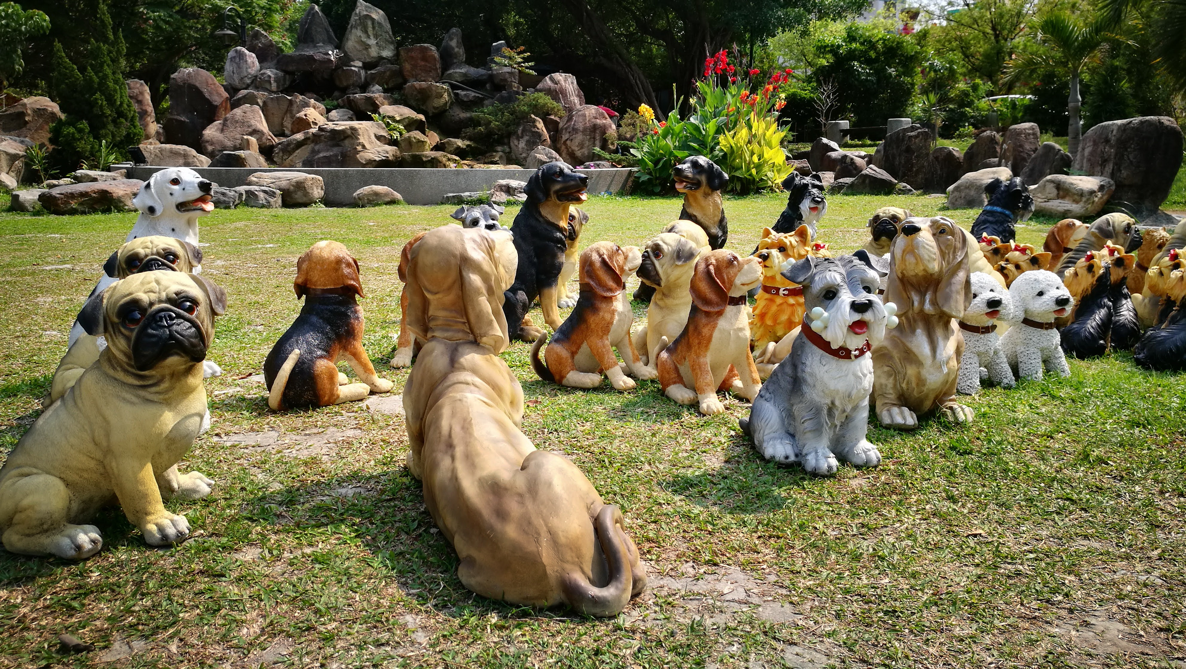 Yuanlin Park, Yuanlin City, Taiwan.